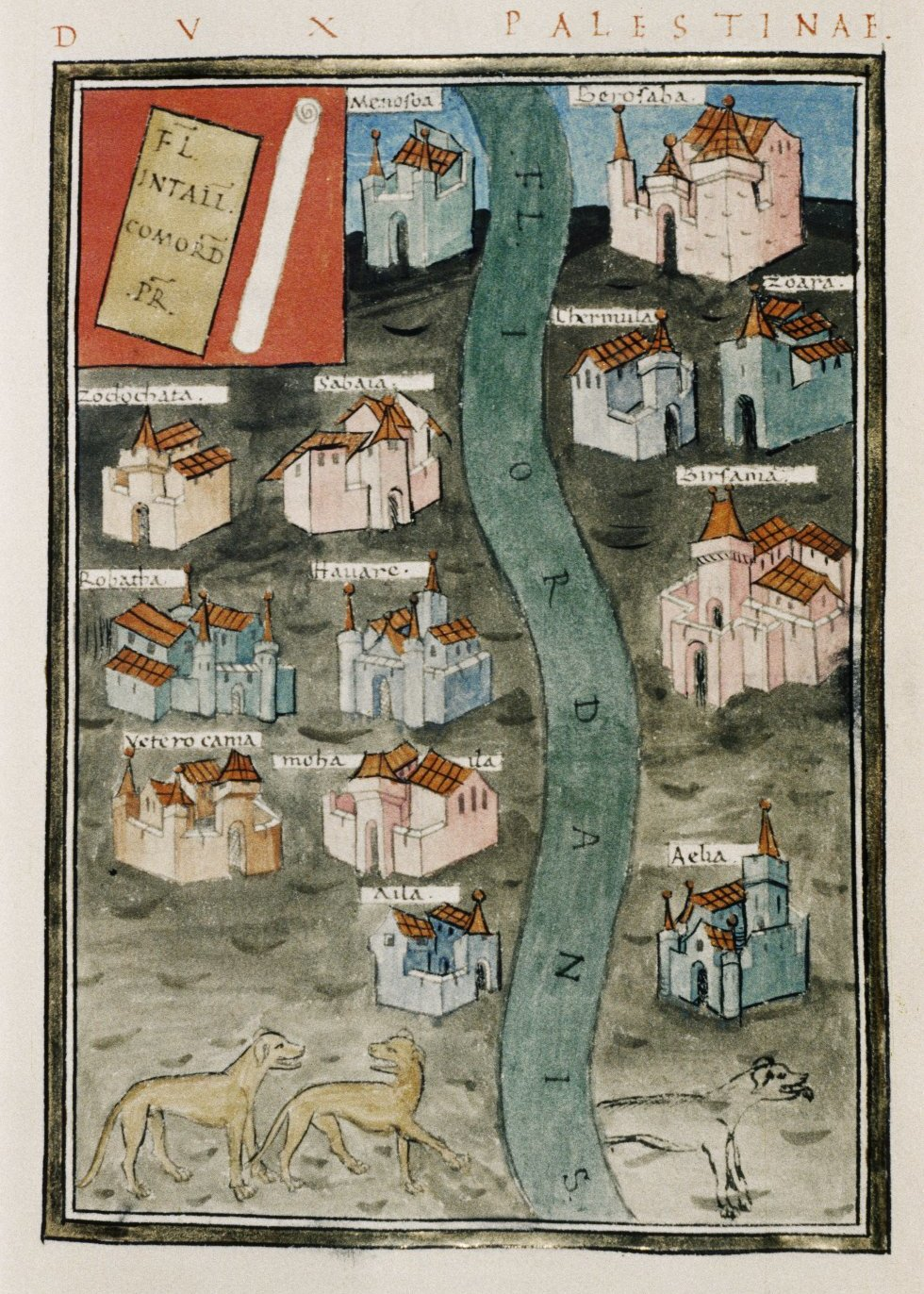 Dux Palaestinae (Palestine) from Notitia dignitatum, a parchment manuscript, showing the Jordan river The Bodleian Library describes as follows: "The manuscript is modelled after the Carolingian copy (the lost Carolingian "Codex Spirensis") of a late antique manuscript. This manuscript is the earliest copy of this text to survive complete, made at Basel in 1436 by an Italian scribe and a French illuminator (Peronet Lamy) for Petrus Donatus, bishop of Padua."